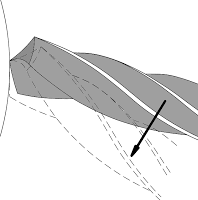 drill sharpening schema